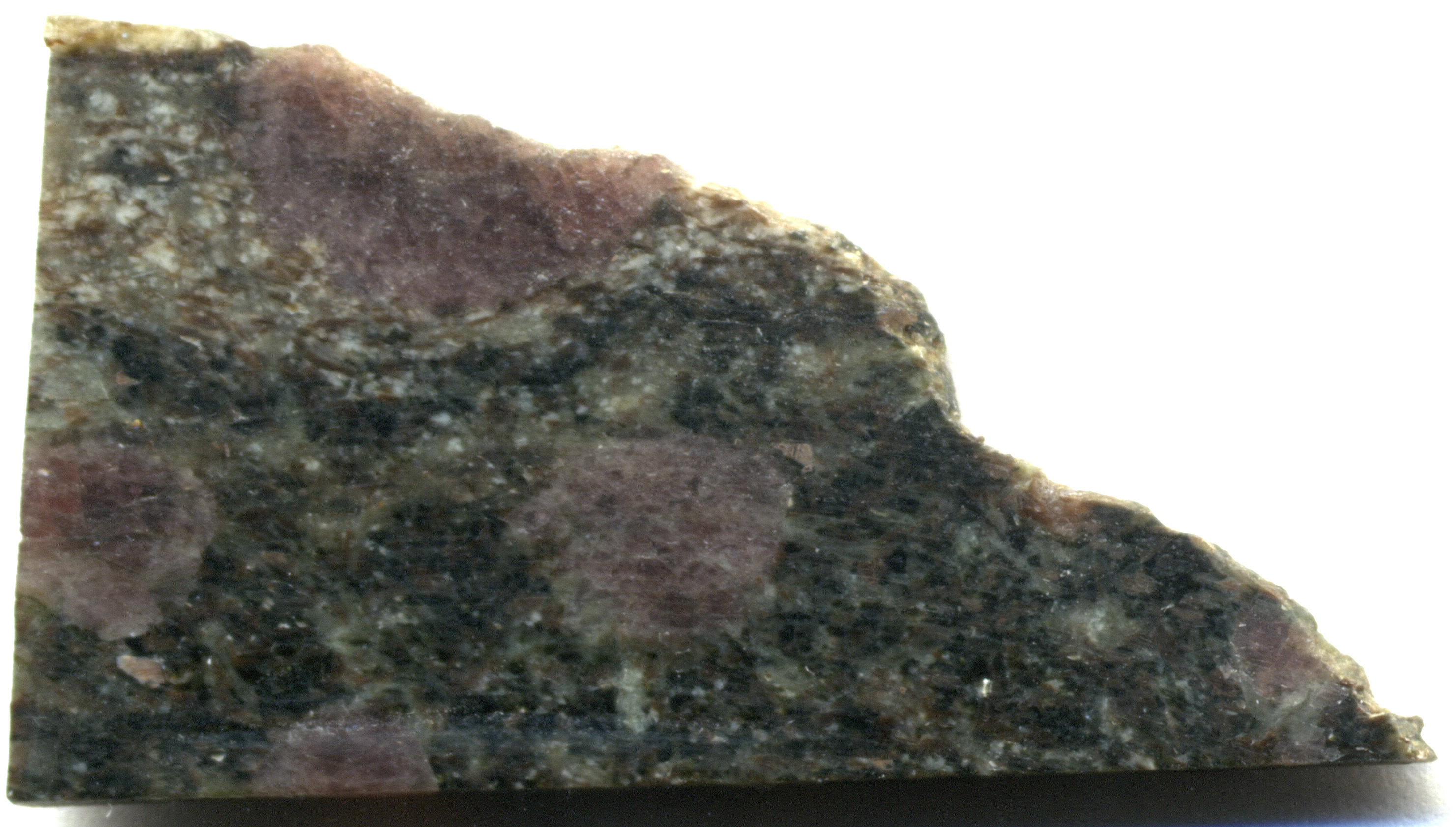 Garnet paragneiss ("faux-amphibolite") (3.0 cm across at its widest), dating to 4.28 Ga, the oldest known Earth rock of which direct samples are available. Reported minerals: garnet, cummingtonite amphibole, biotite mica, quartz, plagioclase feldspar, anthophyllite, cordierite. Geology & age: Nuvvuagittuq Greenstone Belt, Eoarchean, 4.28 Ga. Locality: western Ungava Peninsula, eastern side of Hudson Bay, northwestern Quebec, eastern Canada (= locality of O'Neil et al., 2008, Science 321: 1828-1831).